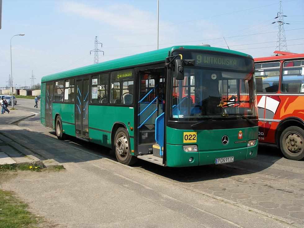 Mercedes-Benz O345 Conecto bus (#022) in Gniezno, Poland. Built 2002, MPK Gniezno operator.